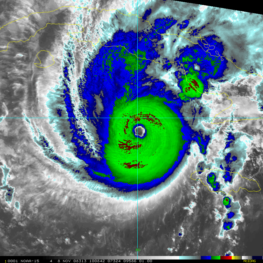 Infrared satellite image of Hurricane Paloma taken by 1 km Mercator, MODIS/AVHRR Satellite on November 7, 2008 at 1008 UTC (4:08 EST). At the time this image was taken, Hurricane Paloma had sustained winds of 140mph (120 km/h).